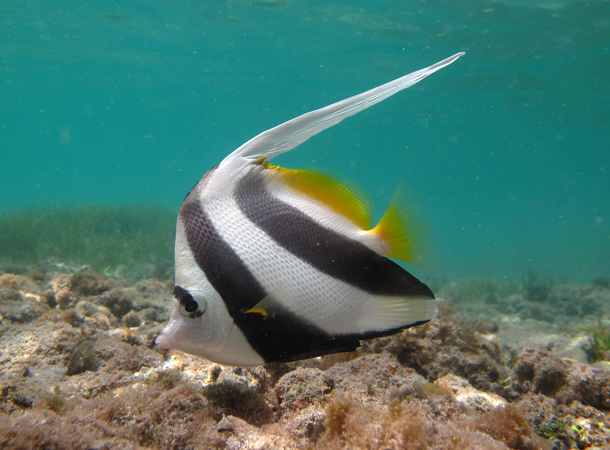 A bannerfish (Heniochus acuminatus) seen in Réunion island's lagoon.